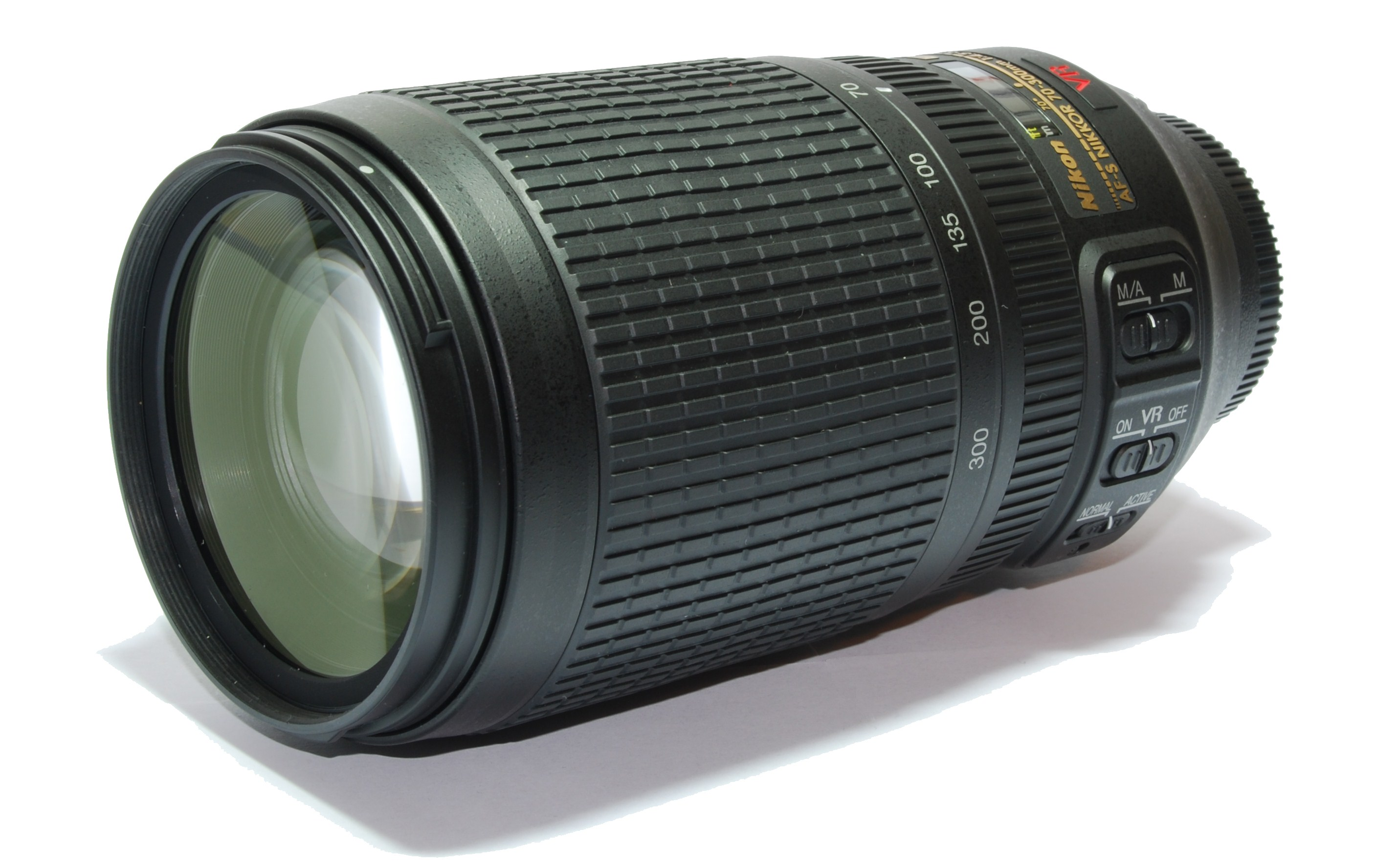 Nikkor AF-S VR 70-300 mm/4.5-5.6G IF-ED lens